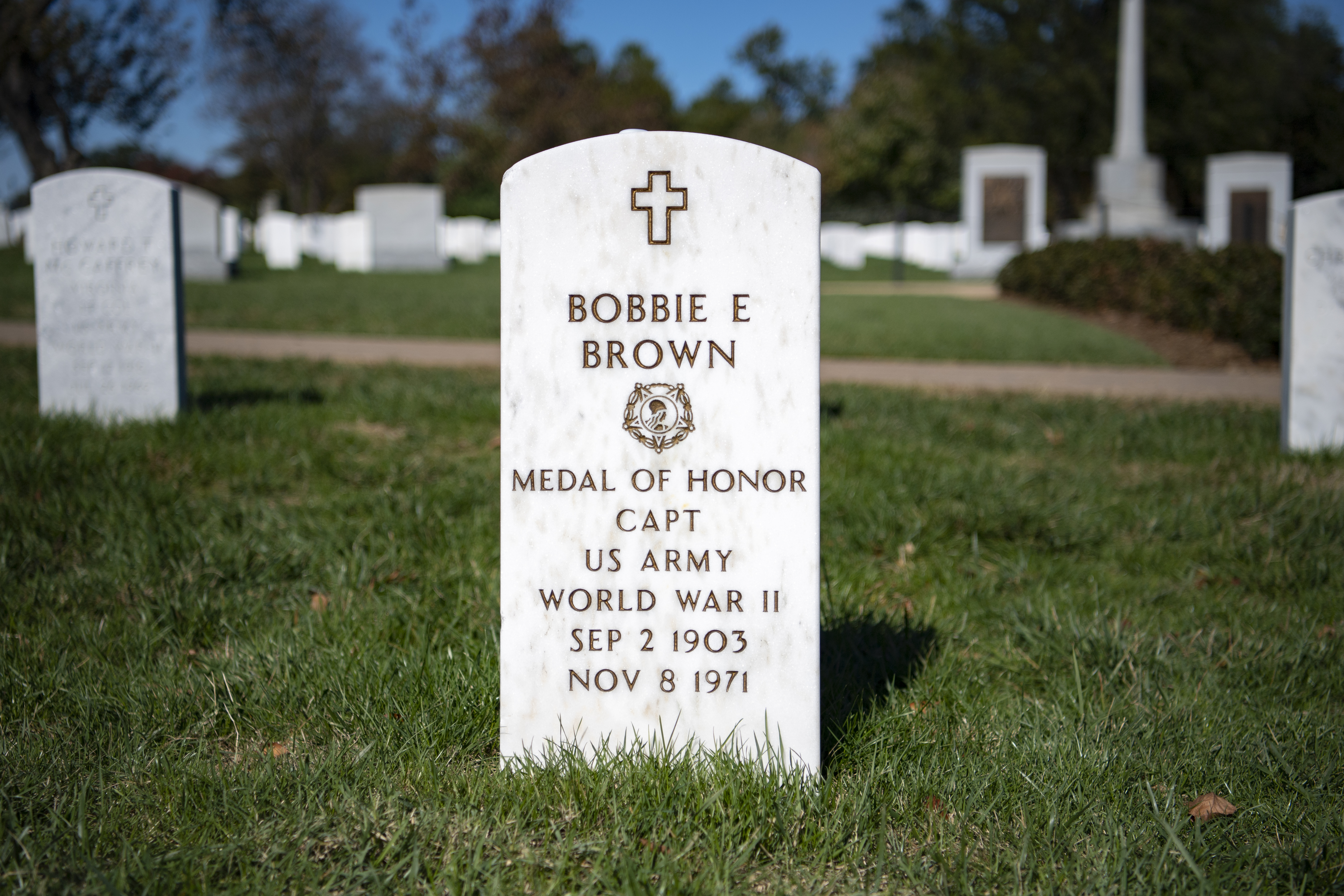 Headstone of U.S. Army Capt. Bobbie Brown, Medal of Honor recipient, in Section 46 of Arlington National Cemetery, Arlington, Virginia, Nov. 4, 2019. (U.S. Army photo by Elizabeth Fraser / Arlington National Cemetery / released)